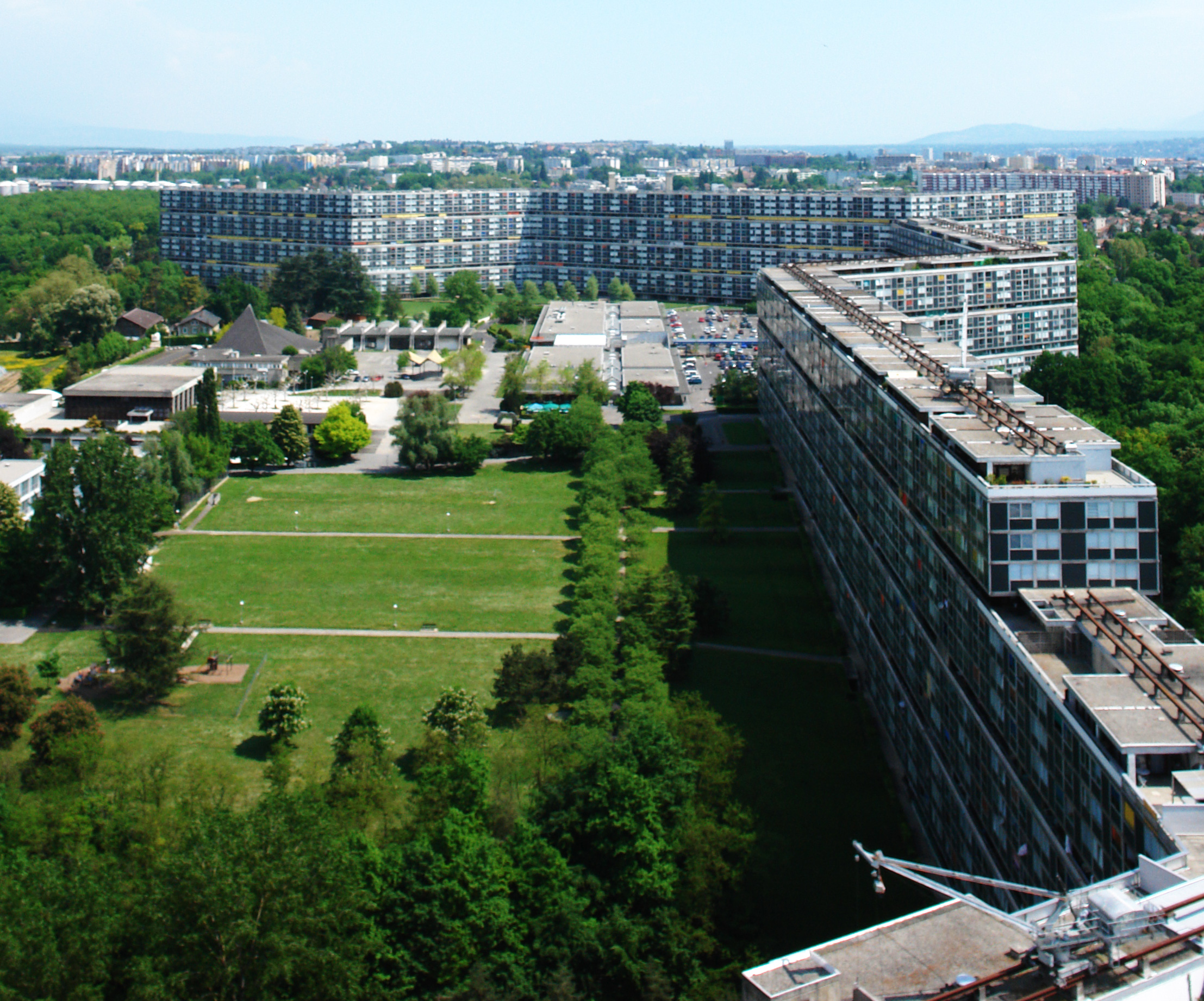 Cité du Lignon, large residential estate, Aire, 1962-71 in Geneva Switzerland, Architect: Georges Addor, The elongated residential belt